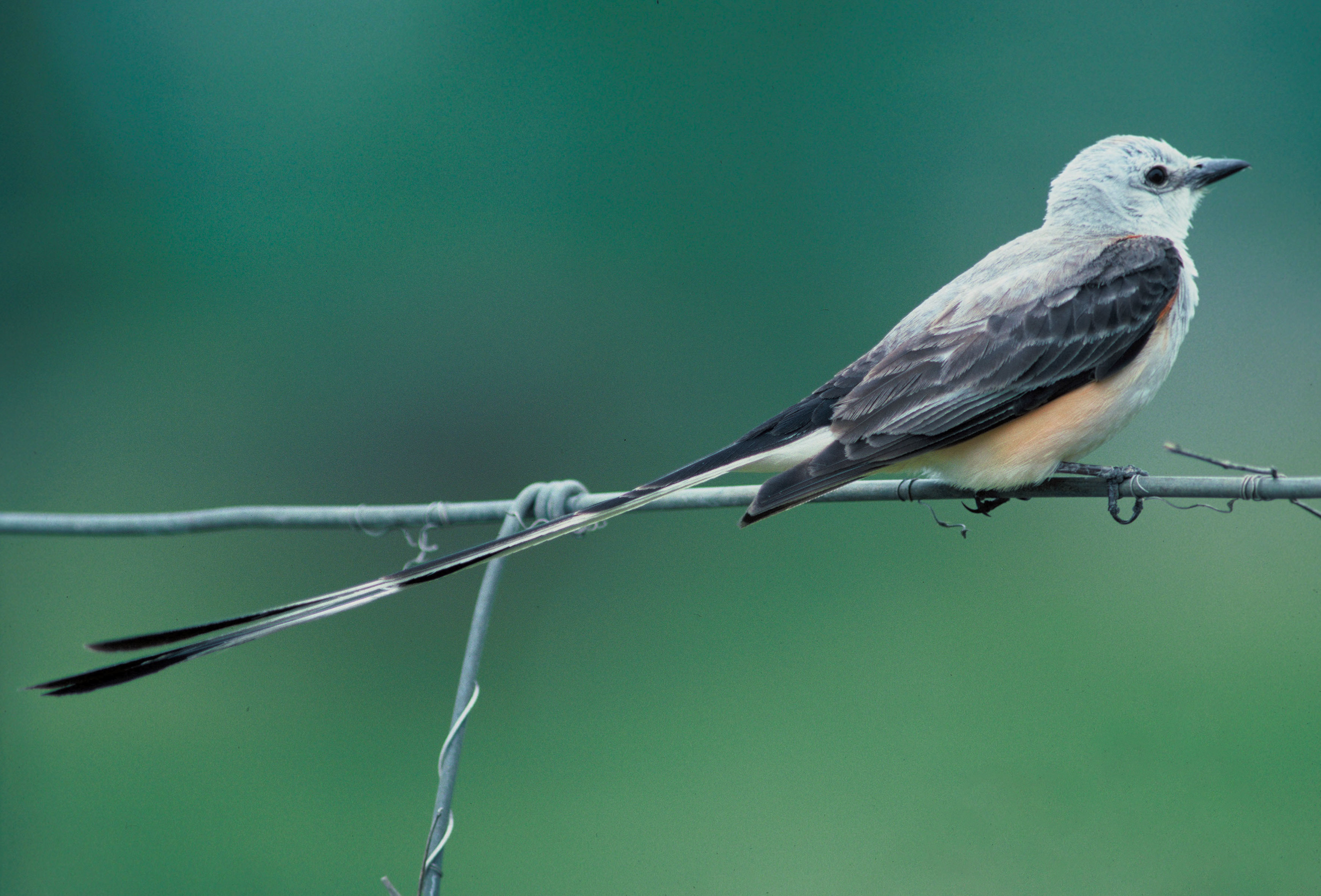 Scissor-tailed Flycatcher public domain from USFWS